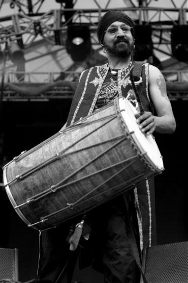 Johnny Kalsi performing with the Imagined Village @ The Big Chill 2008 © Mark A Bennett 2009